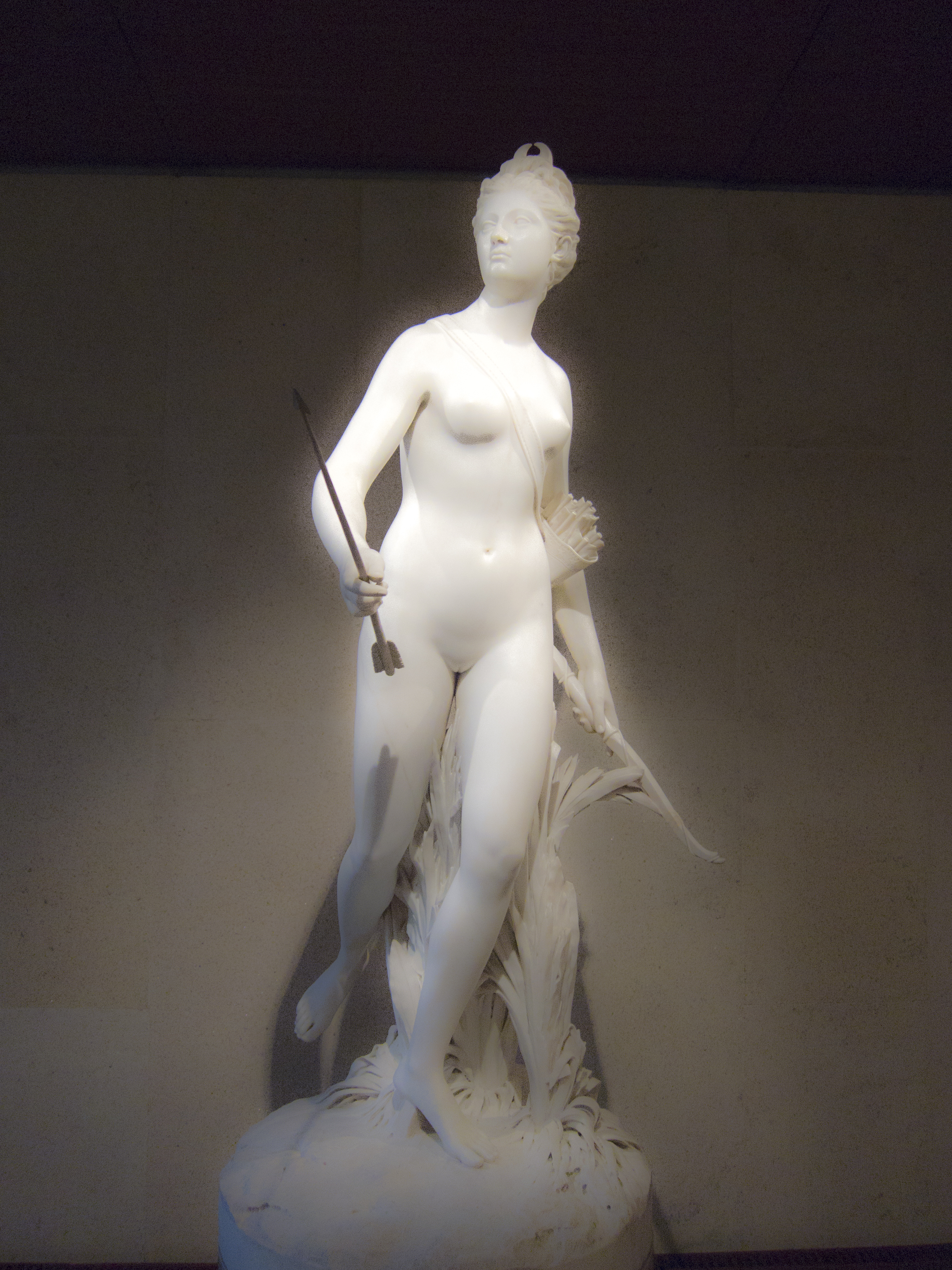 Jean-Antoine Houdon's marble sculpture of Roman godess Diana at the Museu Calouste Gulbenkian in Lisbon. Paris, ca. 1780.